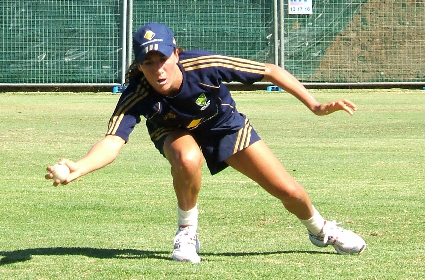 Named person engaging in named action at Adelaide Oval nets/training ground